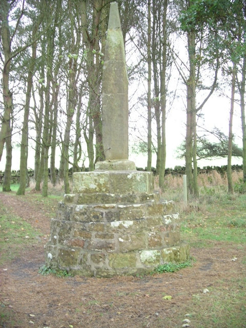 Percy's Cross. In memory of Sir Henry Percy at the Battle of Otterburn, August 1388. Just off the A696 to the north west of Otterburn.